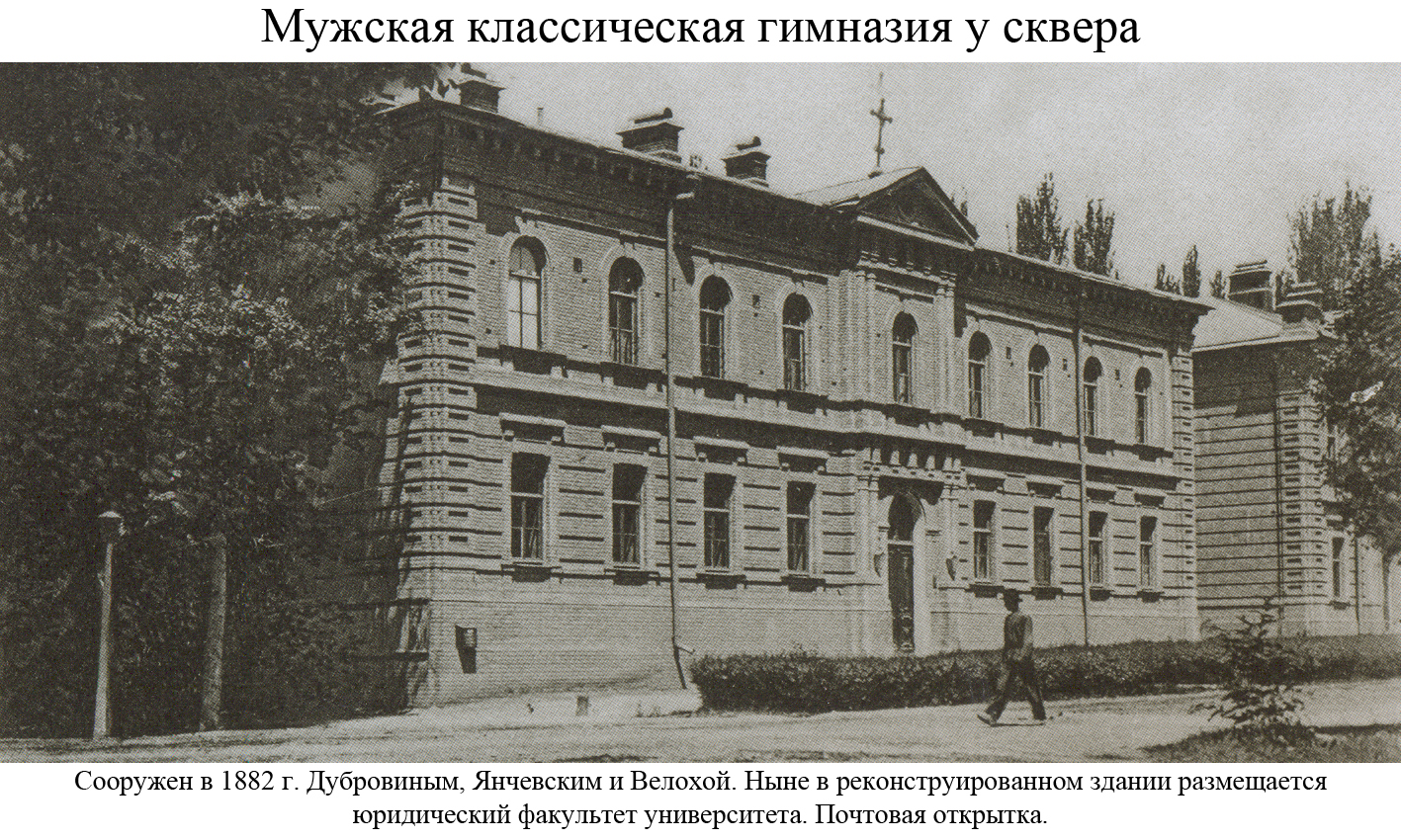 Men's classical gymnasium in the park. Constructed in 1882, Dubrovin Yanchevskii and Velohoy. Now located in a renovated building University Law School. Postcard.